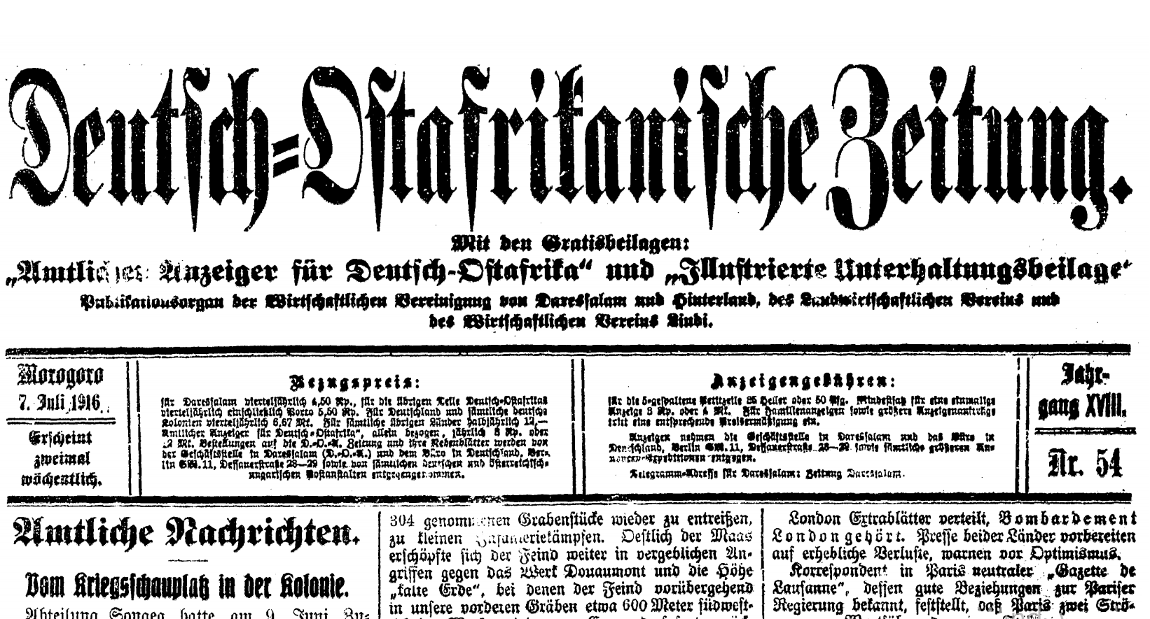 title of Deutsch-Ostafrikanische Zeitung 1916 No.54, Morogoro (one of the last issues at Morogoro, because Dar es Salaam was already occupied by British troops)